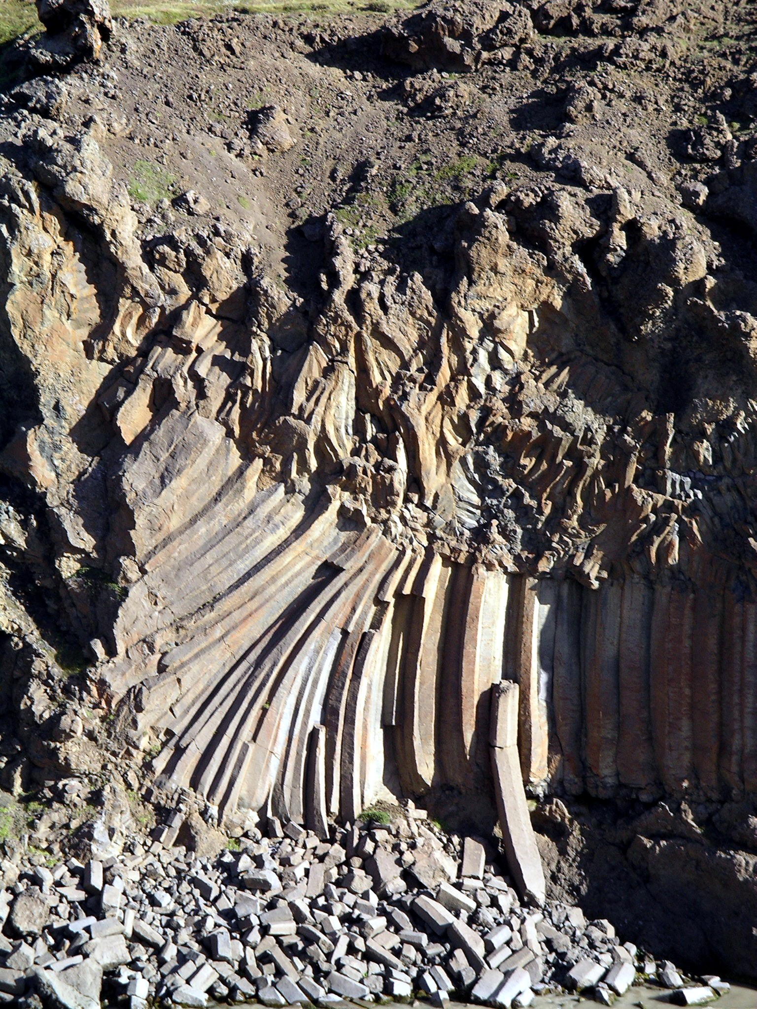 Columnar basalt, Skjálfandafljót River, Iceland